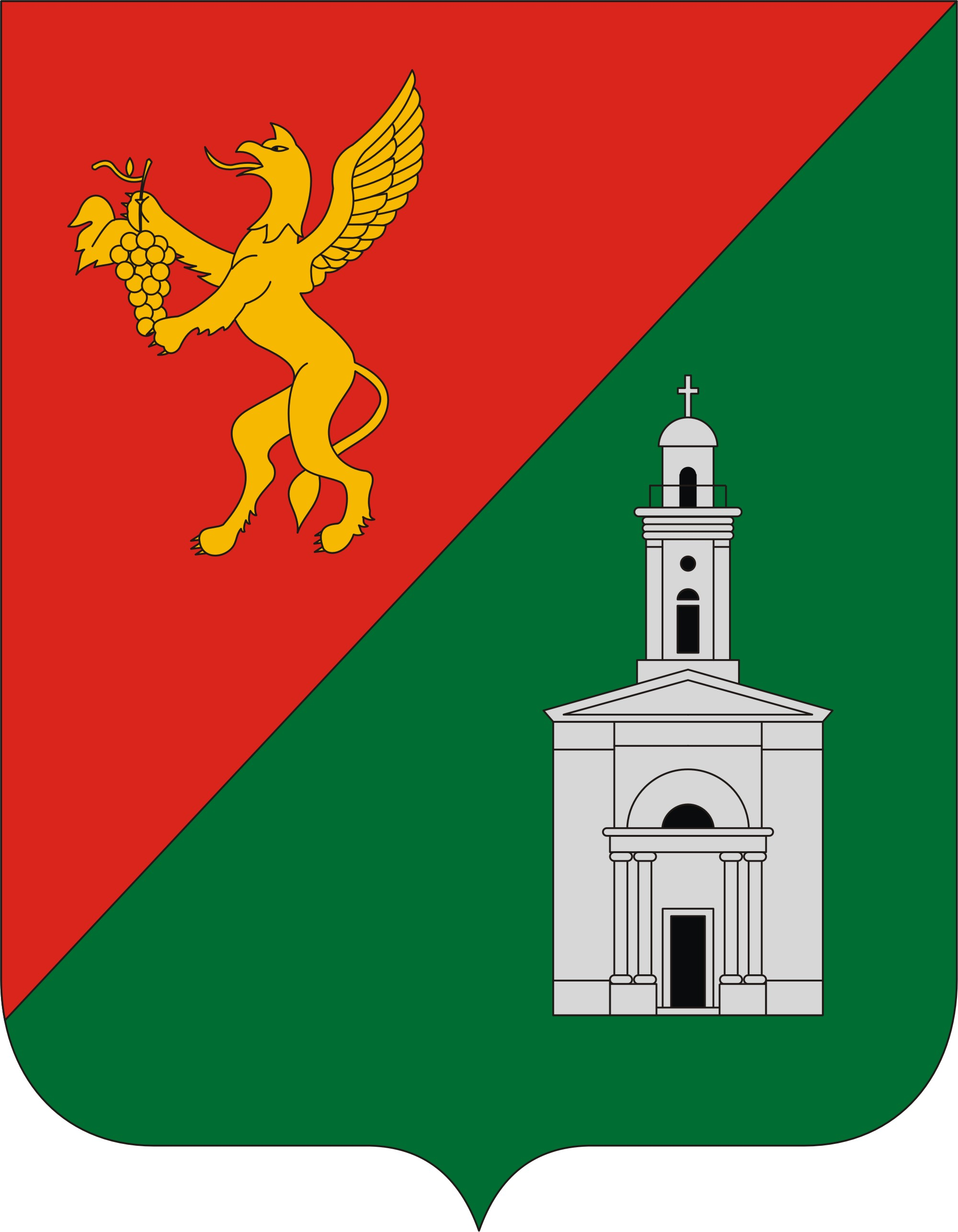 Coat of arms of Péteri, Hungary